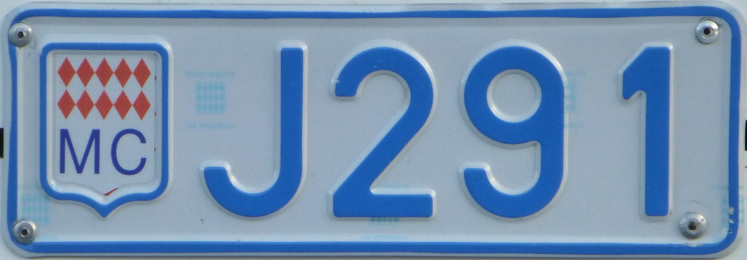 Front license plate from Monaco (2014)